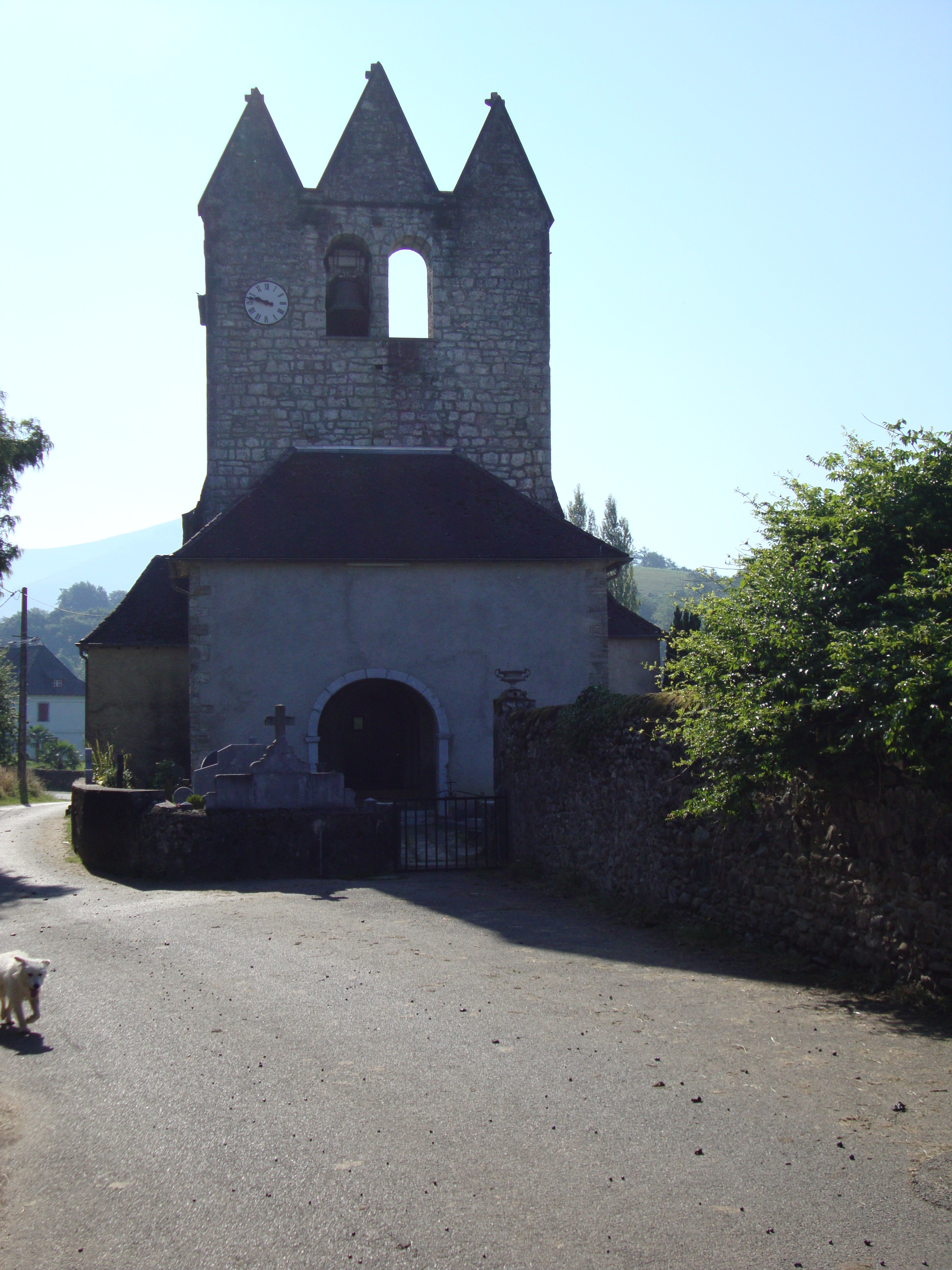 Sauguis (Sauguis-Saint-Étienne, Pyr-Atl, Fr) trinitarian church